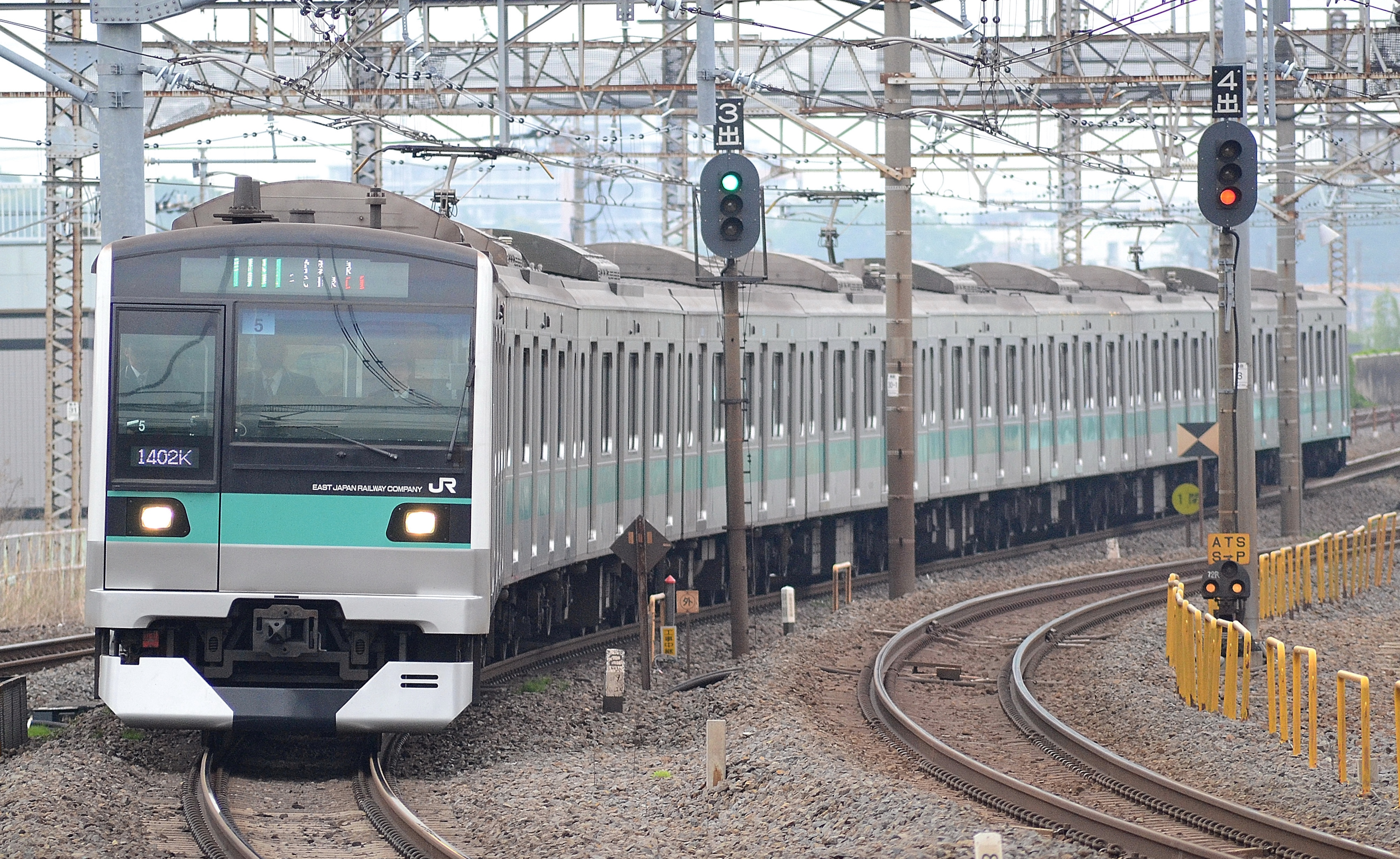 JR East E233-2000 series EMU set 5 approaching Kanamachi Station on a Joban Line local service